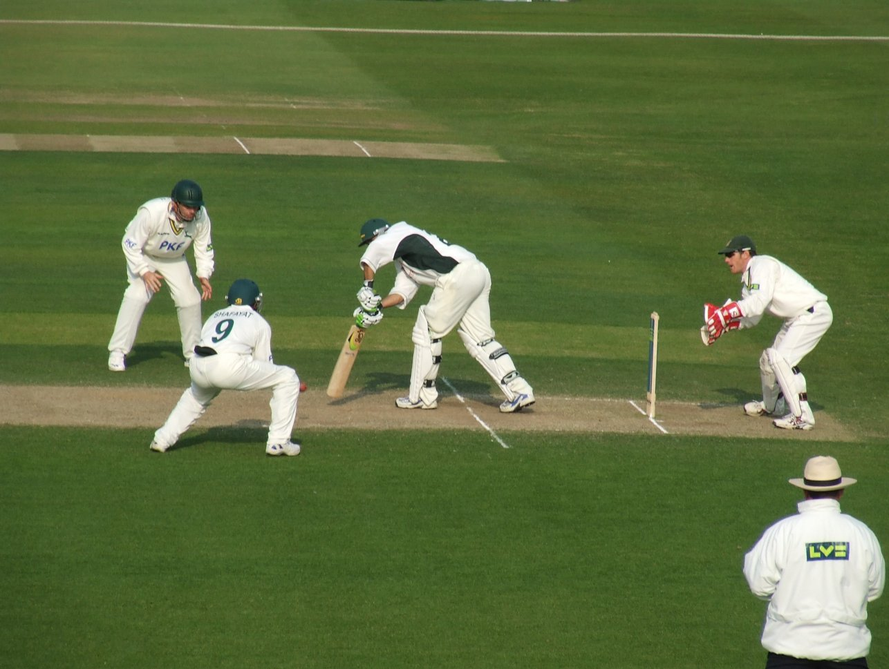 Two close fielders playing for Nottinghamshire in a County Championship match against Leicestershire at Trent Bridge. Bilal Shafayat (near) is at Short Leg and Jason Gallian (far) is at Silly point. The batsman is HD Ackerman and Chris Read is keeping wicket.